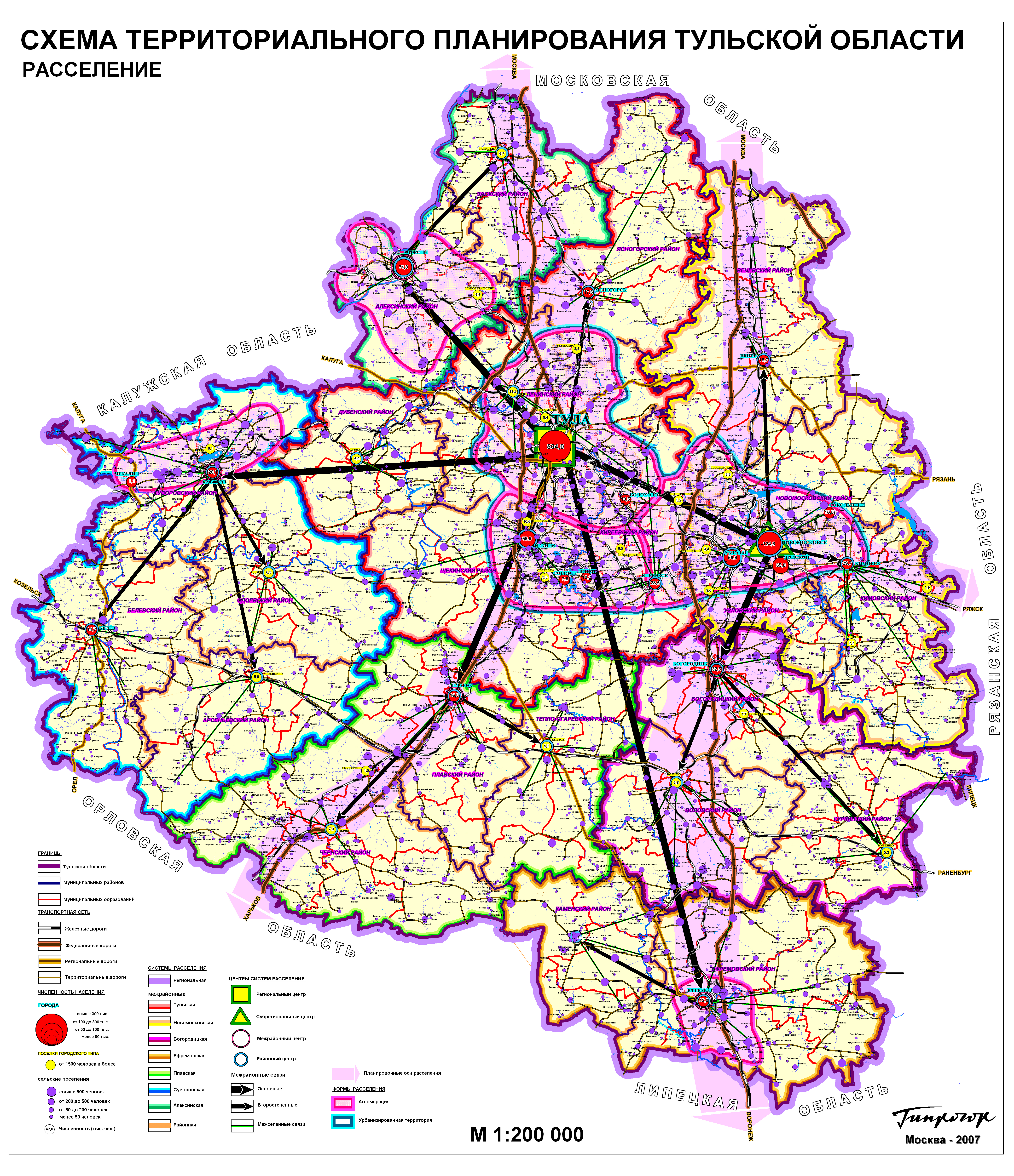 Tula oblast, Russia, regional planning map